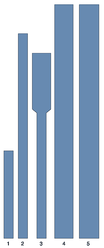 A graph featuring the relative sizes of the most common obi types. Dimensions used for picture: #Tsuke/tsukuri/kantan obi 15 x 150 cm #Hanhaba obi 15 x 350 cm #Nagoya obi 15/30 x 345 cm #Fukuro obi 30 x 400 cm #Maru obi 35 x 400 cm